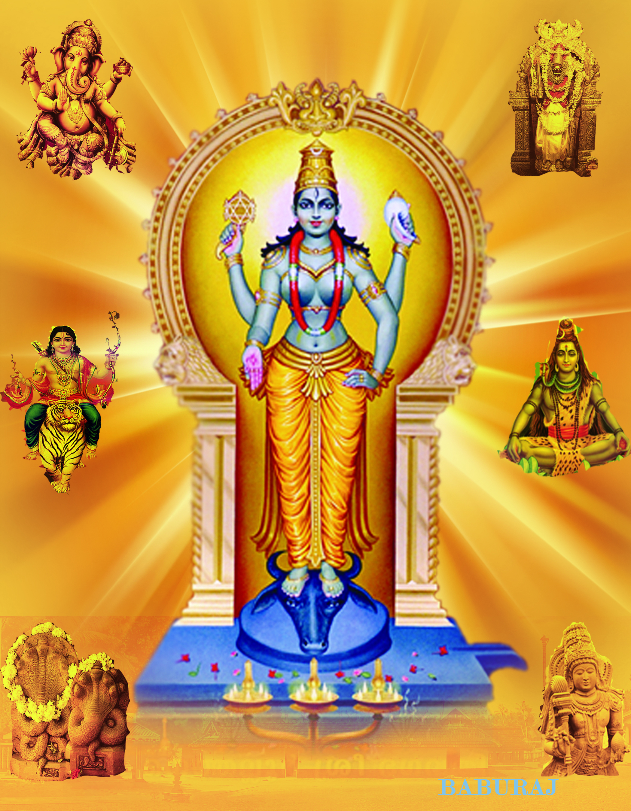 Nethalloor Devi Temple, one of the famous DURGA DEVI temple in Kerala.The Durga devi in the "bhava" of "mahishasuramardini".The main festival of this temple is "Thrikkarthika Maholsavam" in the month of 'Vrichikam'( Nov-Dec) & the other one is "Navarathri".At this time many of special poojas arranged here.Navachandikahomam. mahanjana saraswatha yajnam, thripurasundari thathwa sameeksha sathram, sakthithraya thathwa sameeksha sathram .. etc are few of them.In the main fesival time the "anpoli" is famous for all over the country.It contain huge number of "para" (vessel used for the measurement of paddy)filled with paddy and other grains, arranged in the raws are the main attraction.The tenple located near Karukachal,Kottayam district in Kerala State, 19 kms from Kottayam, 16 kms from Changanacherry, 8 kms from Mallappally & 20 kms from Ponkunnam. The temple opening timings: morning 5:30 to 10:30 & evening 5:30 to 7:30. Inside the temple Ganapathy, , Veerabhadran are the sub deities.Outside the temple lord Ayyappa (Villali veeran), Nagas,Rakshas, Yakshi and Lord Shiva are the sub deities.l